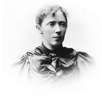 Picture of Tekla Hultin, Finnish politician